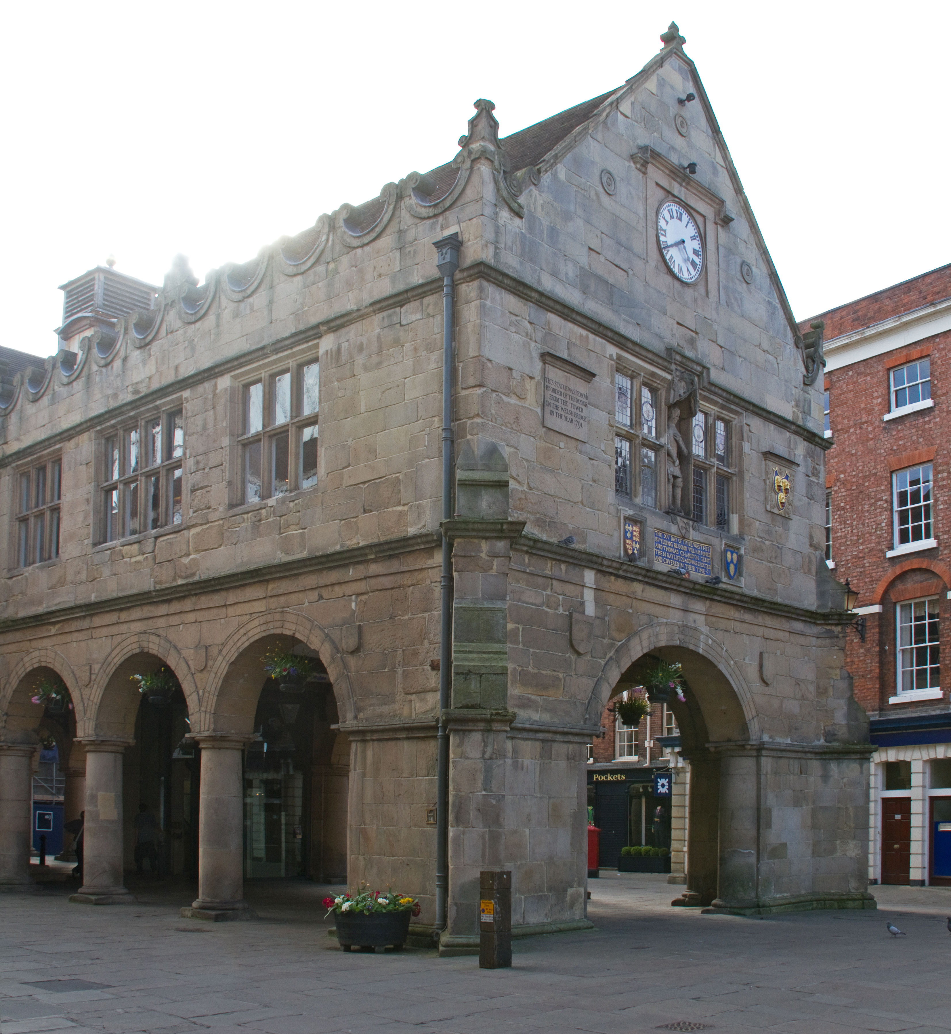 Old market hall and court house. Dated 1596